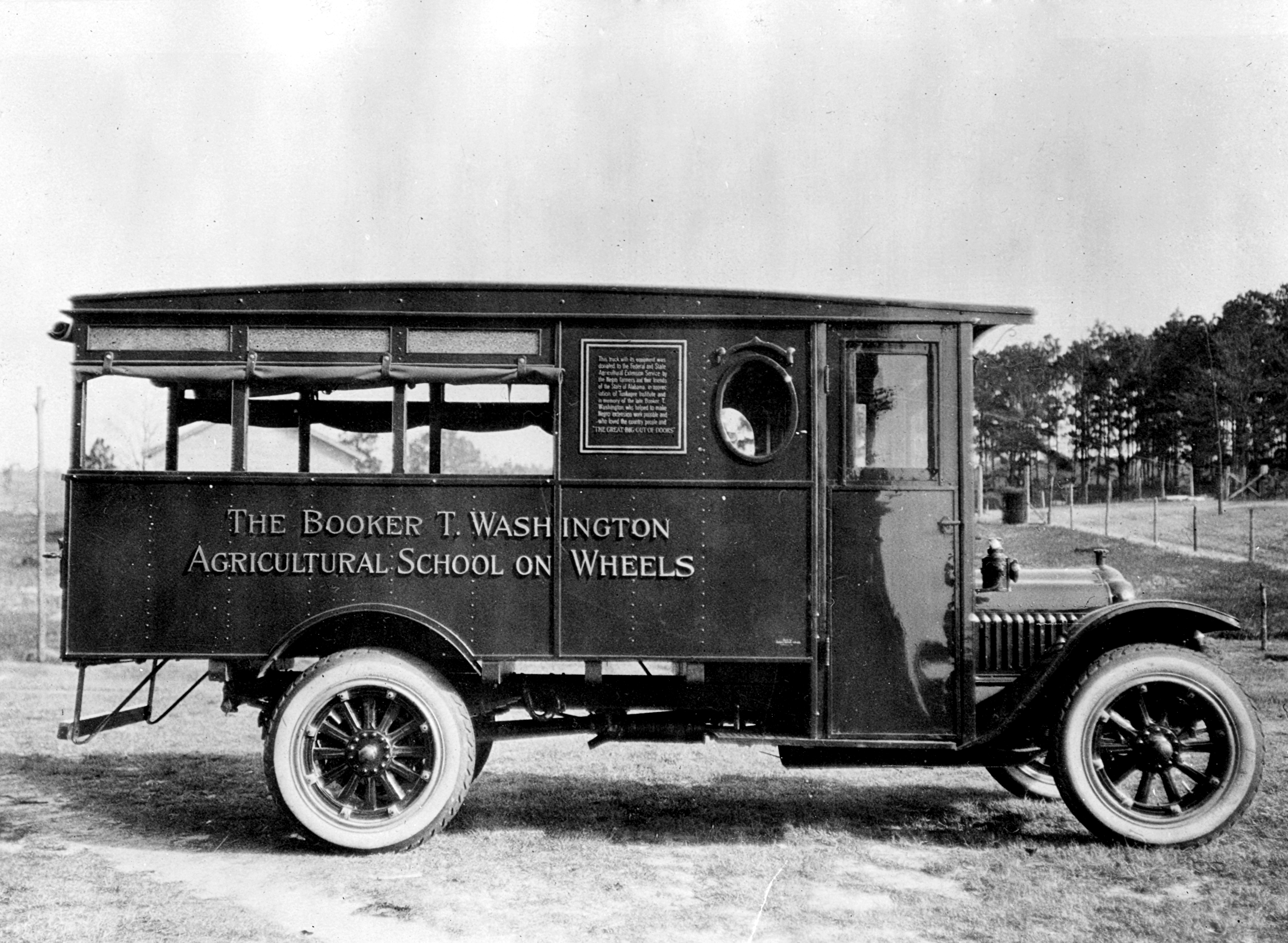 Tuskegee agricultural science pioneer George Washington Carver developed the "Movable School," a wagon and later a truck that brought new tools and crops to farmers who could not travel to Tuskegee for instruction. Here is the Booker T. Washington Agricultural school truck on wheels in Alabama in 1917. Photo courtesy of National Archives and Records Administration.